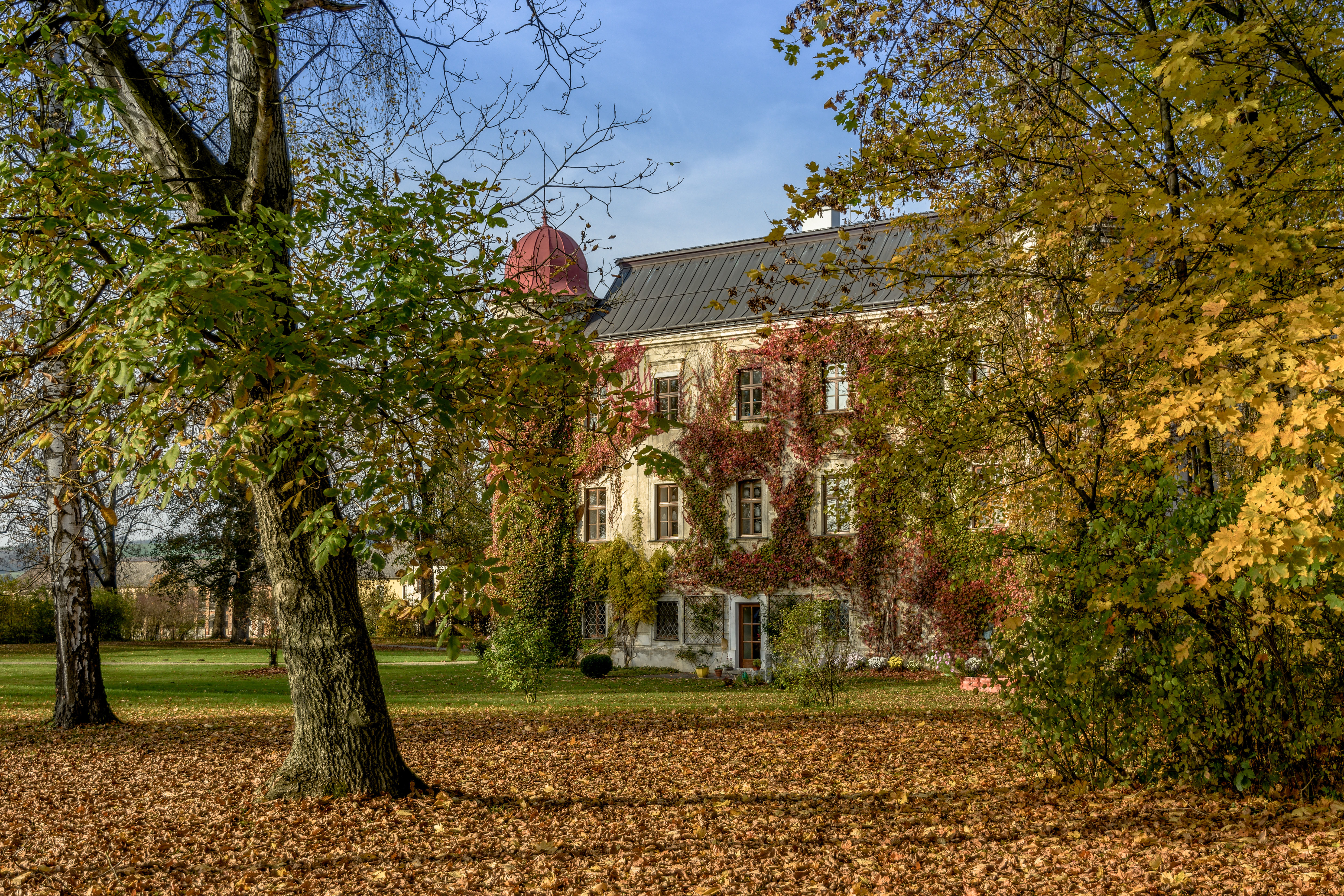 Schloss, Gut Mitterau